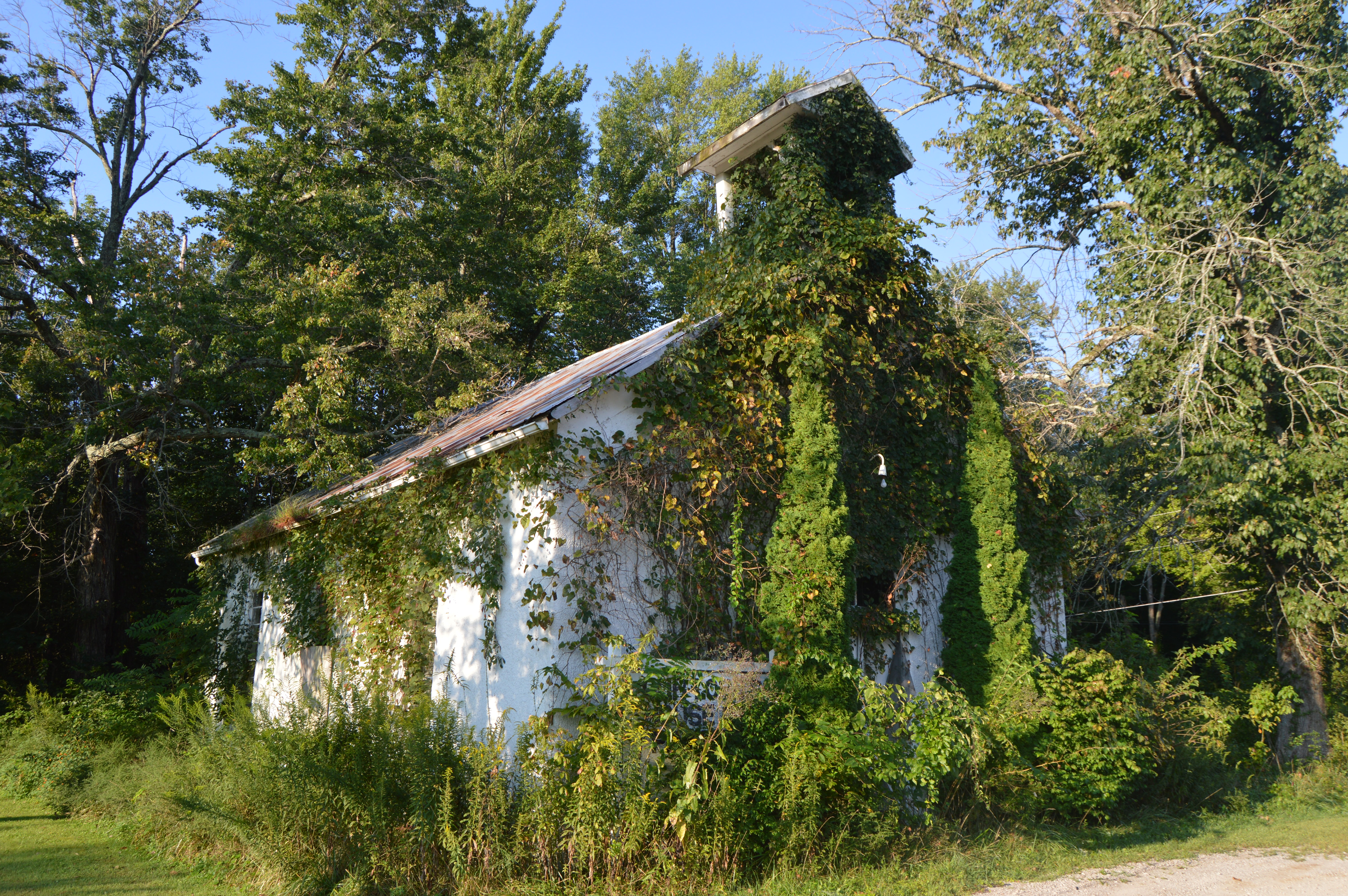 Front of the overgrown former Oakland Church, located at 3526 Oakland-Locust Ridge Road southwest of Mount Orab in Pike Township, Brown County, Ohio, United States.